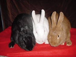 New Zealand Rabbit